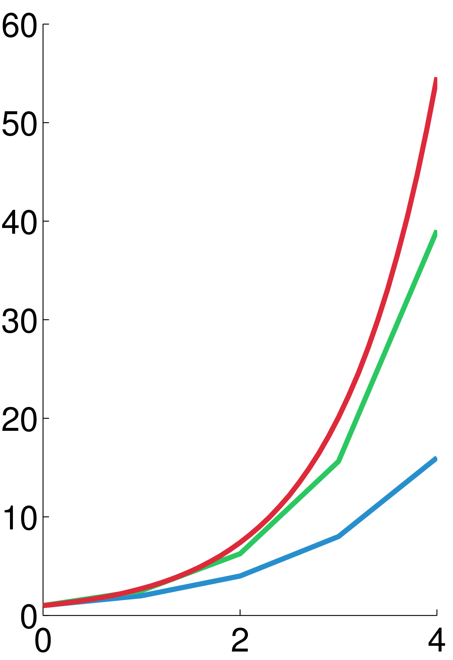 Illustration of Numerical ordinary differential equations